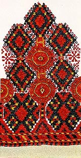 Embroidery on the lower end of the female shirt